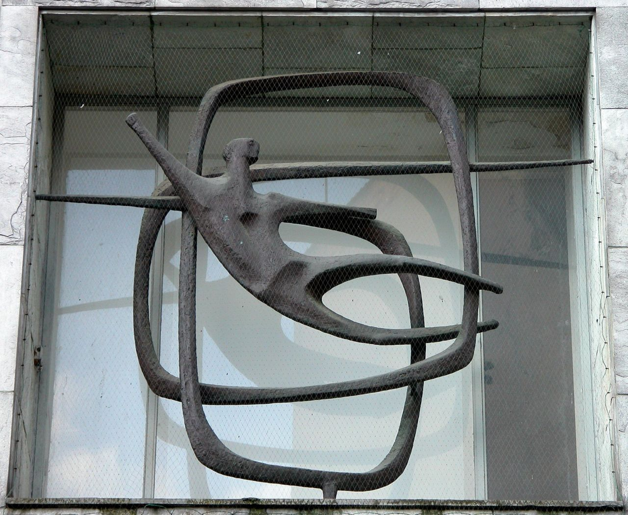 Brunswick, Germany: unknown sculpture in Kattreppeln street. Does not exist anymore.